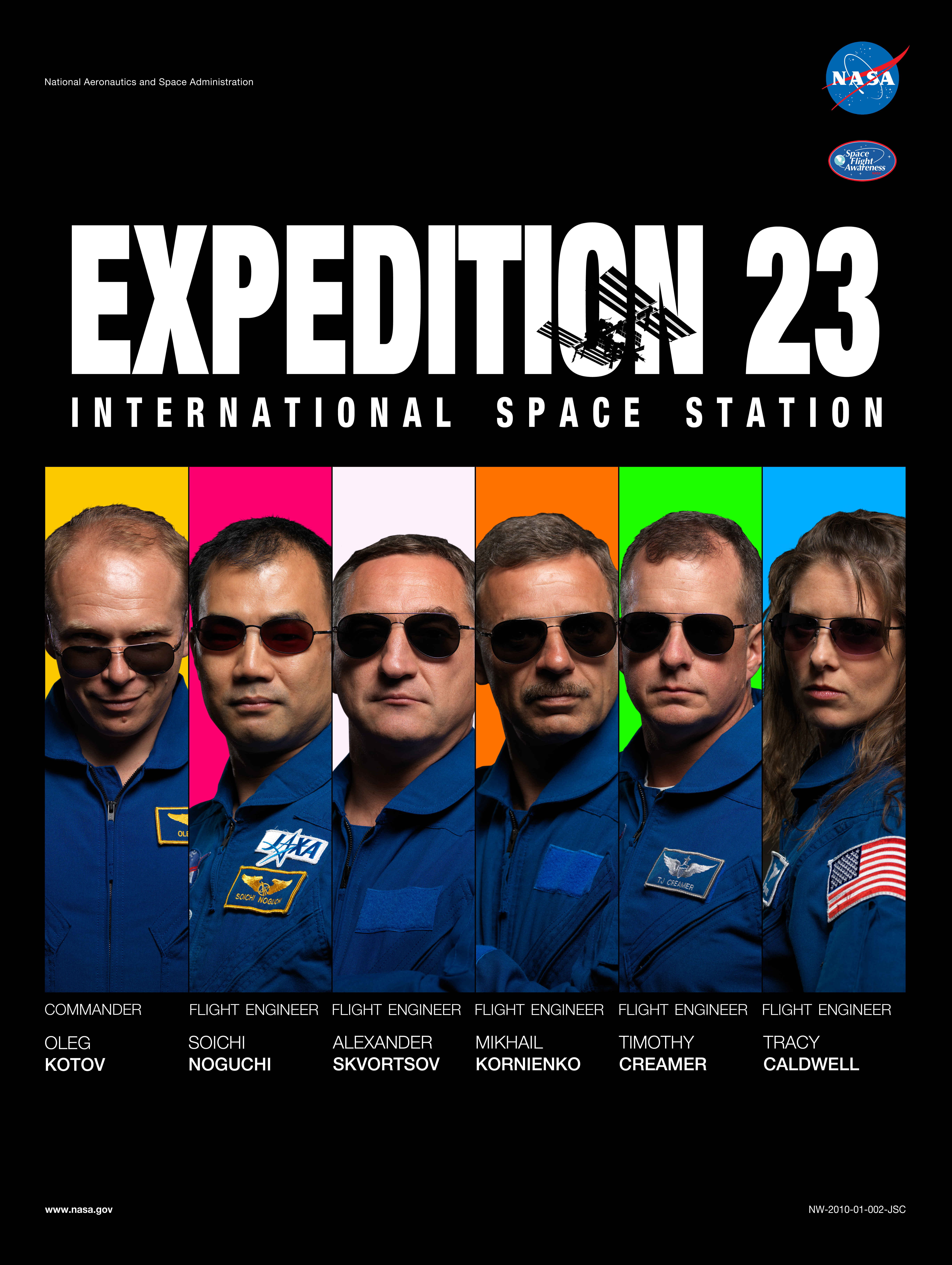 The Expedition 23 crew poster pays tribute to the motion picture Reservoir Dogs.